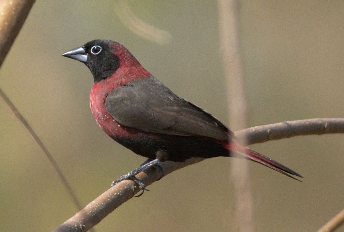 Black-faced Firefinch (Lagonosticta larvata), Gibe Gorbe, Ethiopia